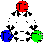 An illustration of part of Gordon Pask's Conversation Theory: any two concepts can produce the third, shown as the cyclic form of three concepts. Note that the arrows should show that BOTH T1 and T2 are required to produce T3; similarly for generating T1 or T2 from the others.